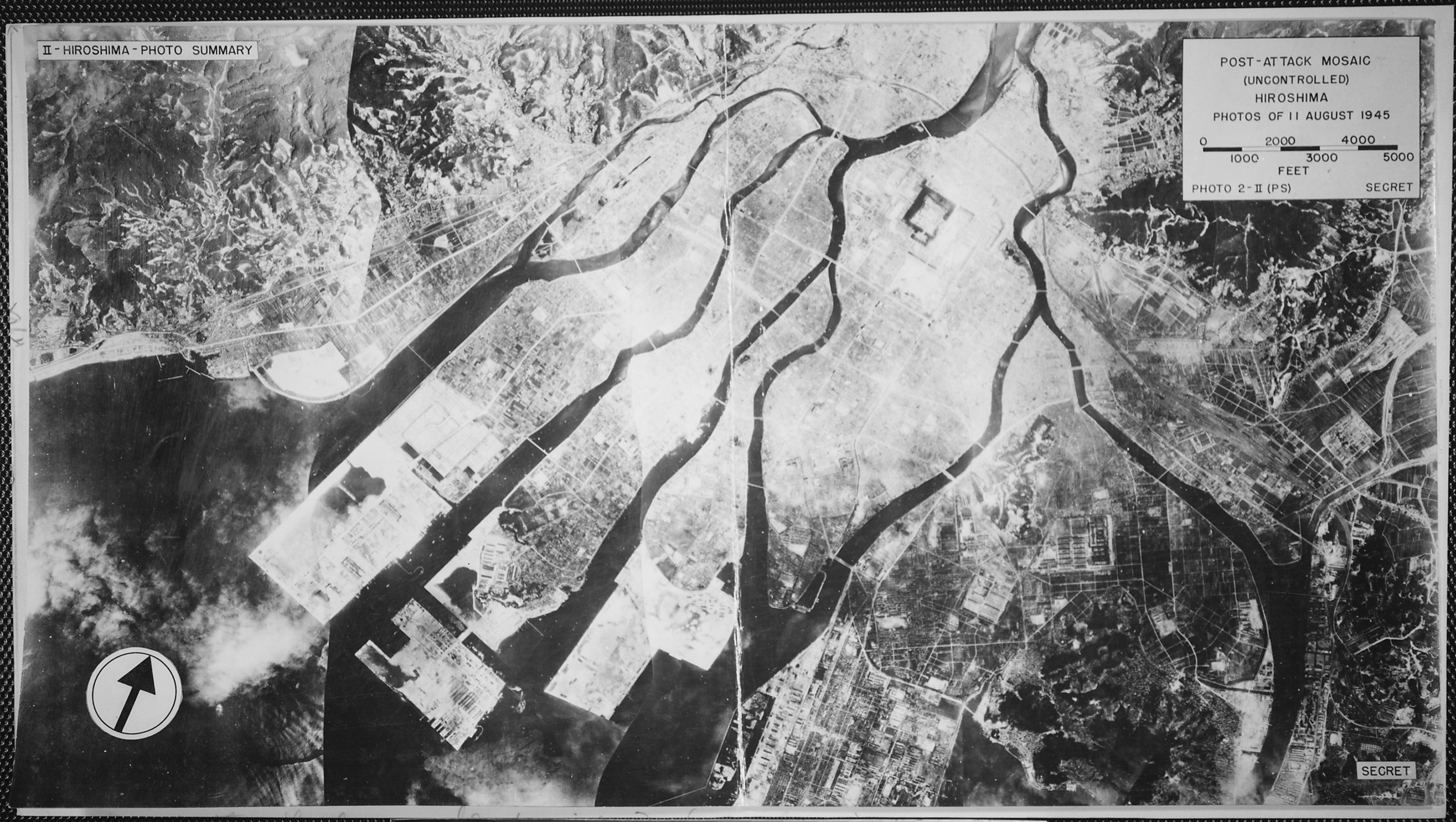 Hiroshima after A-bomb attack (mosaic view) for the US strategic Bombing Survey, an Army-Navy joint intelligence research project.